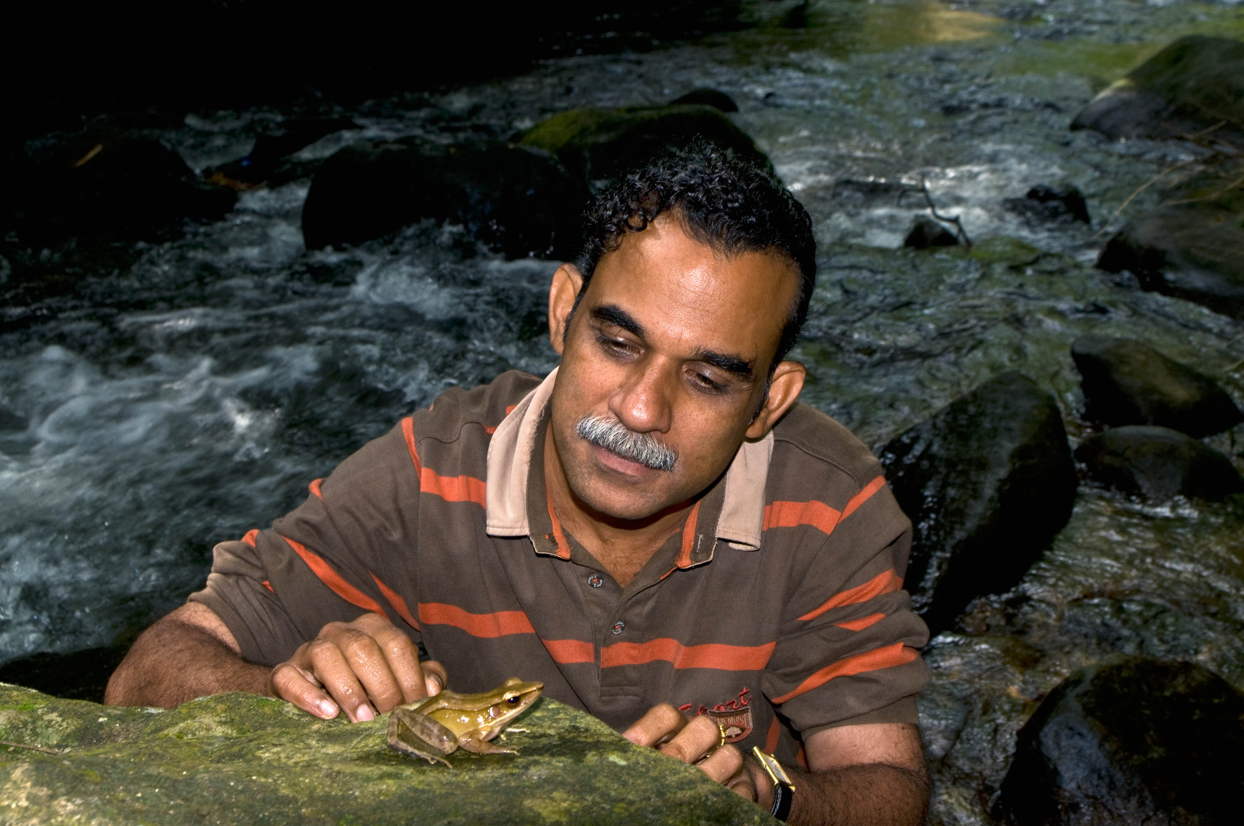 Dr. Sathyabhama Das Biju in Western Ghats